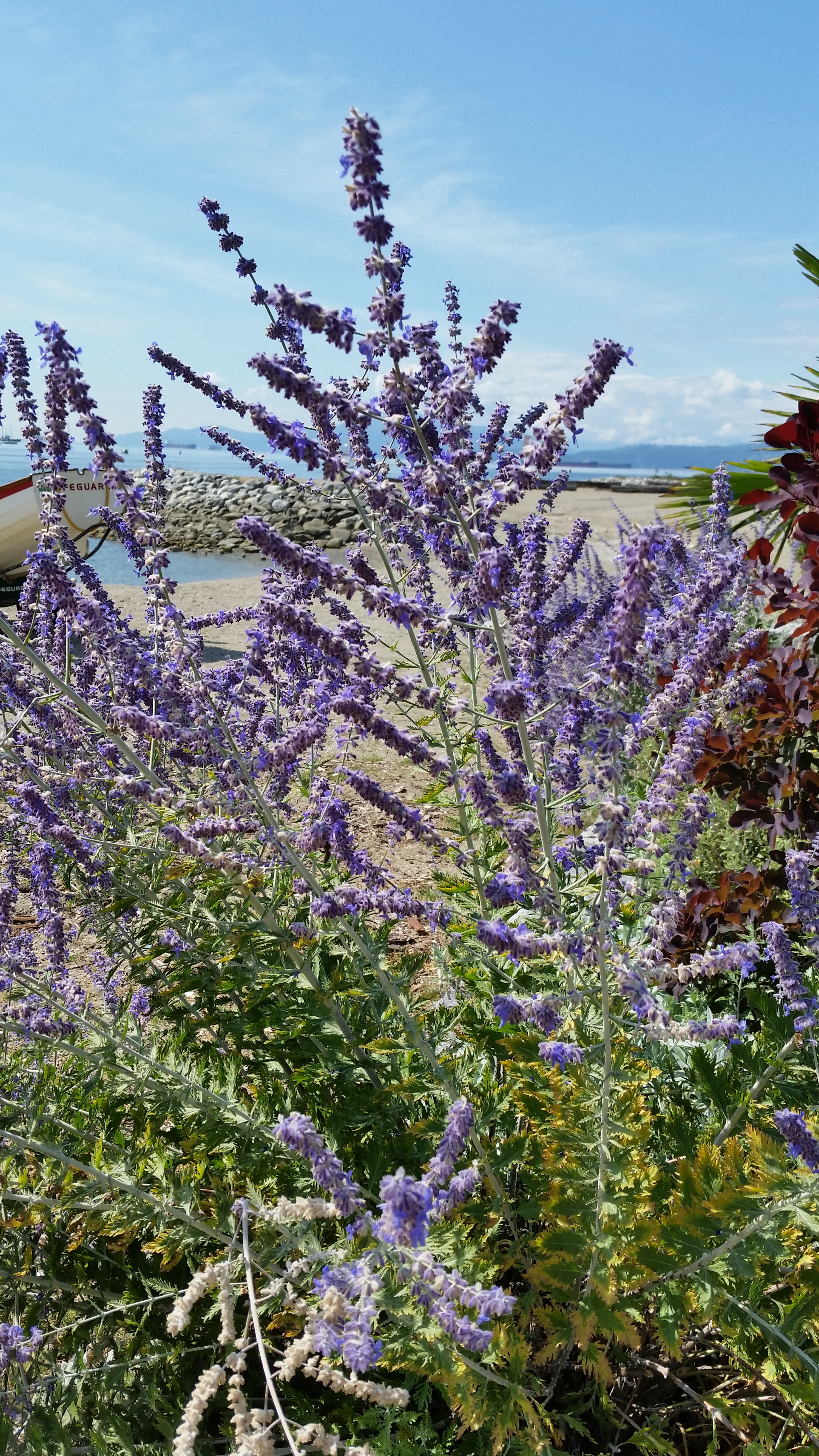 Perovskia atriplicifolia. I hope that's right - I figured it out myself.